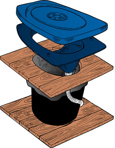 Sweden - urine diversion toilets from Separett